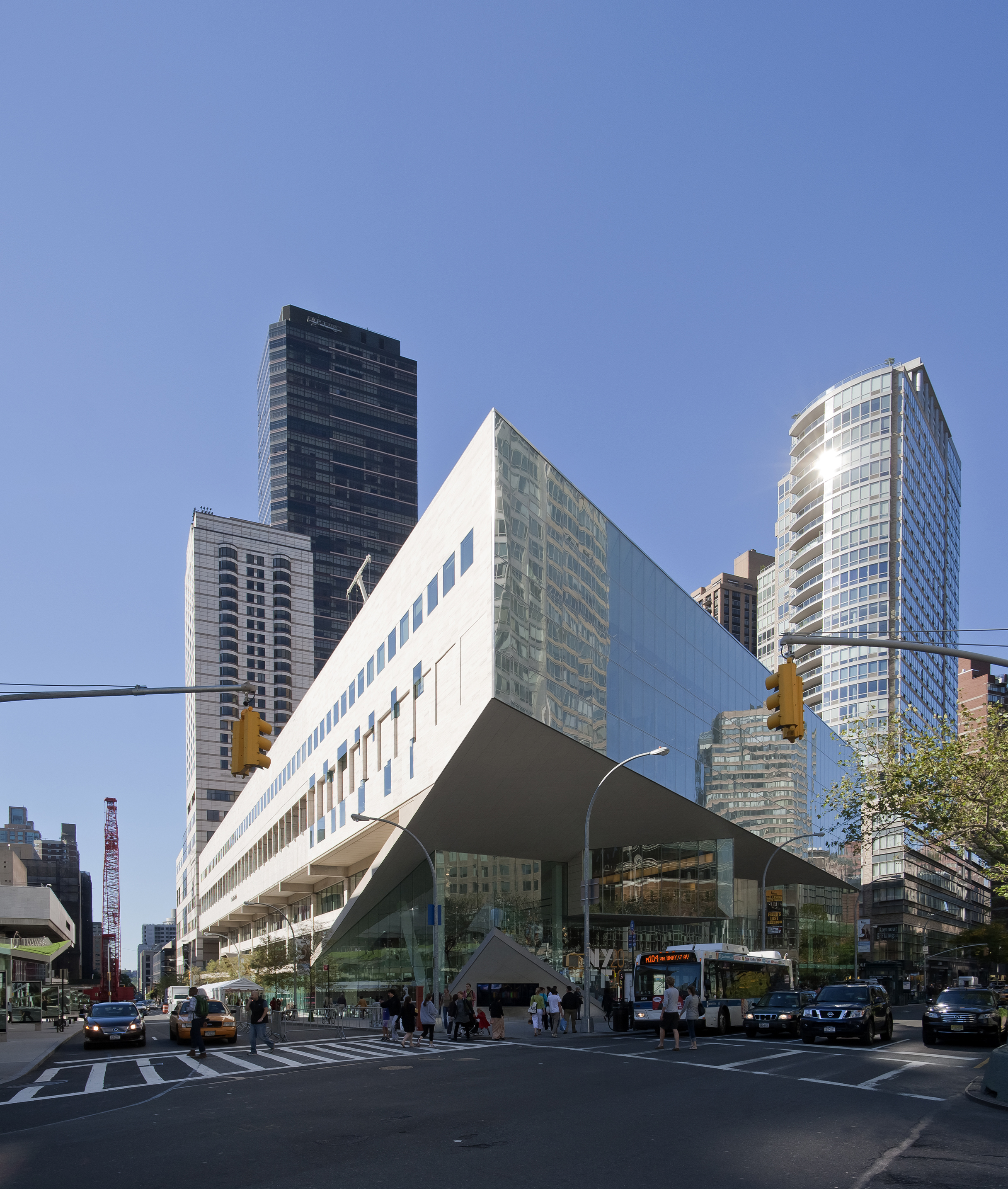 The Juilliard School and Alice Tully Hall at the corner of 65th Street and Broadway.